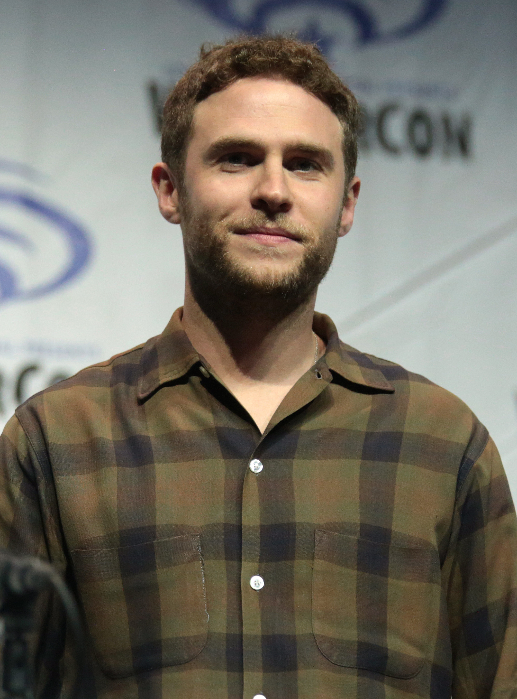 Iain De Caestecker speaking at the 2018 WonderCon in Anaheim, California.